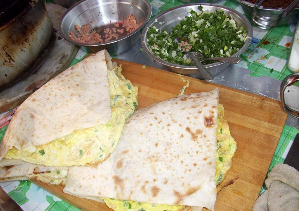 大饼鸡蛋